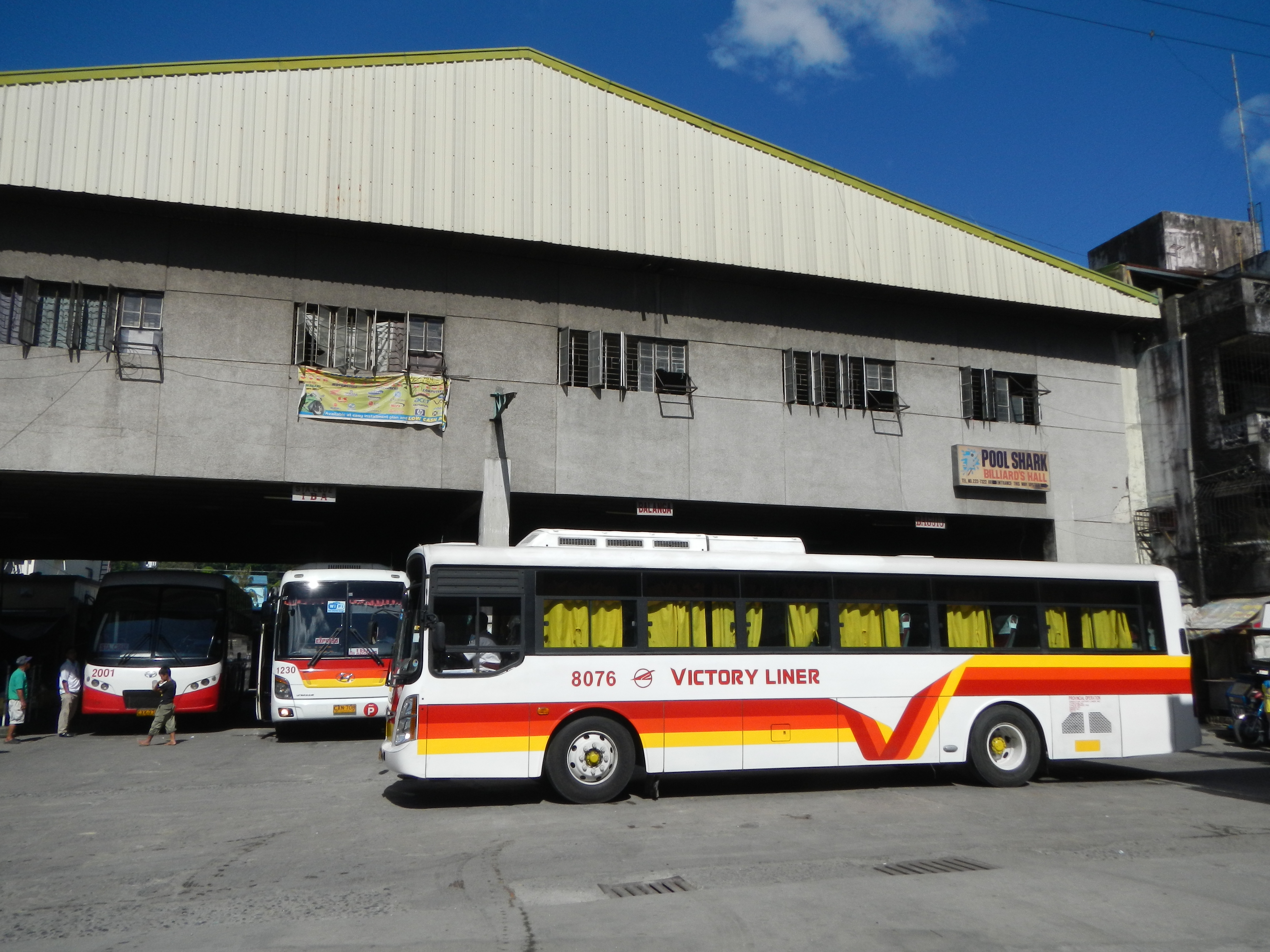 Upload Wizard photos -- (General description, 3-dimension angle by angle photography of this town, church & landmarks) -- the - Pan-Philippine Highway or Daang Maharlika or National Highway passing along Olongapo City, [1] Zambales Proper (details - Ulo ng Apo: a towering and majestic marker located in rotunda in Bajac-Bajac tourist attraction on the City legend, Mercury Drug, Villagracia building, Victory Liner building and terminal, station, bus stop, Saint Joseph Catholic Church of Olongapo City - Roman Catholic Diocese of Iba[2] [3] Olongapo Vicariate Vicar Forane: Rev. Fr. Daniel Presto F-1920 2200 Olongapo City Titular: St. Joseph, March 19 Parish Priest: Rev. Fr. Bernard Mulkerins, MSSC Parochial Vicars: Rev. Fr. Denis Egan, MSSC Rev. Fr. John Walsh, MSSC Rev. Fr. Ian Maniago Rev. Fr. Francis O’ Kelly, MSSC - Dedicated on August 16, 2010 - 18th street, Barretto, East Bajac, Olongapo City).